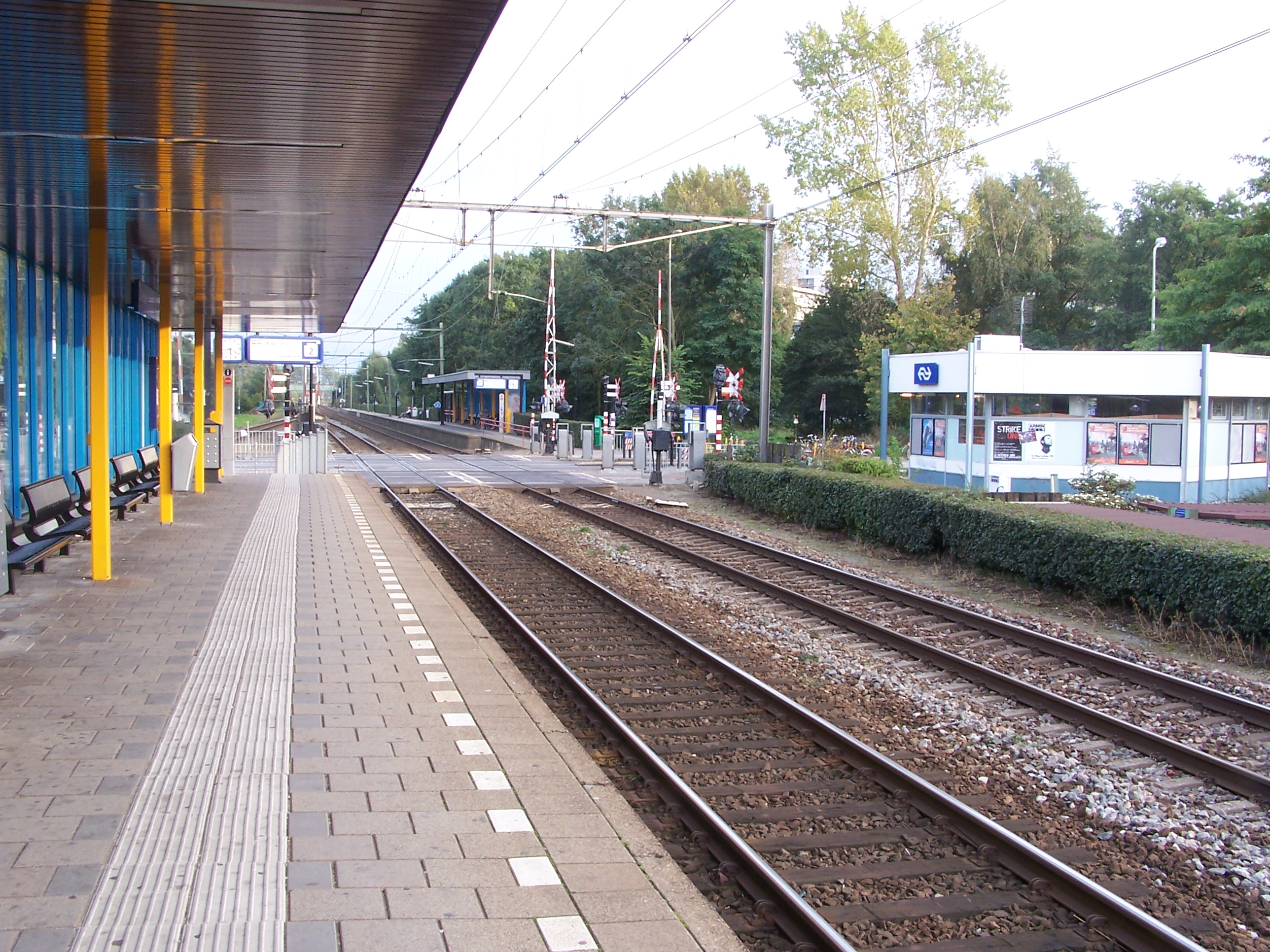 This picture shows the train station Diemen, a suburb of Amsterdam, in the Netherlands. Author:Mig de Jong, september 2005